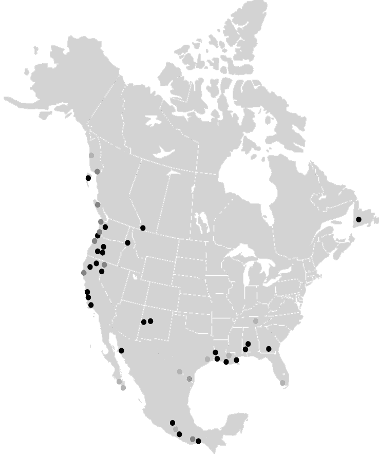 Black spot: (Almost certainly) Isolate language Dark grey: Isolate familiy (small families with 2 to 3 divergent languages/dialects) Clear grey: Unclassified languages / Doubtfull classification languages